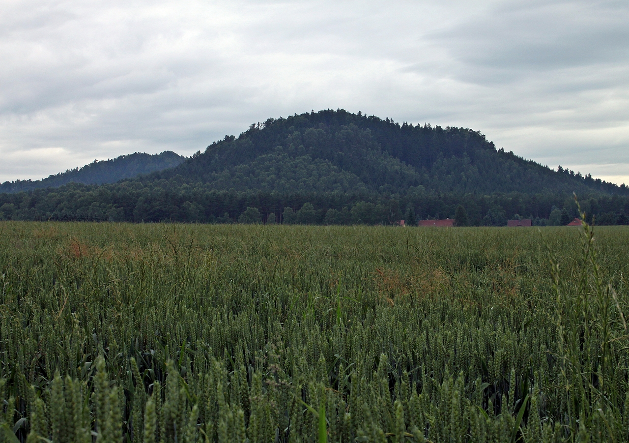 Saxon Switzerland: the Kleinhennersdorfer Stein (392 m) seen from west.